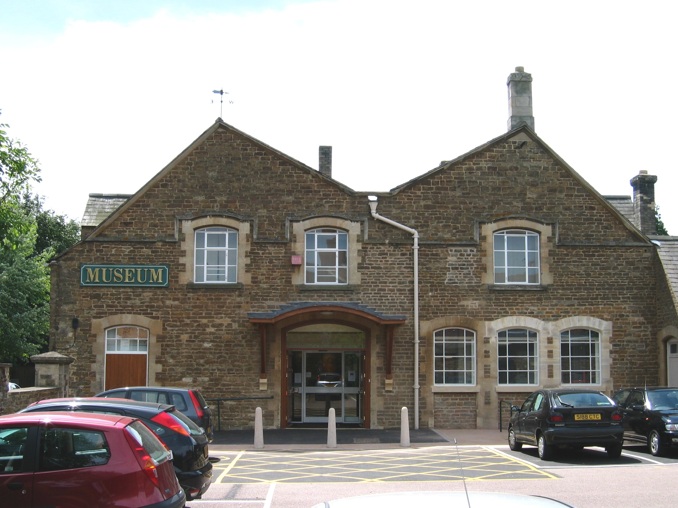 A view of Rutland County Museum